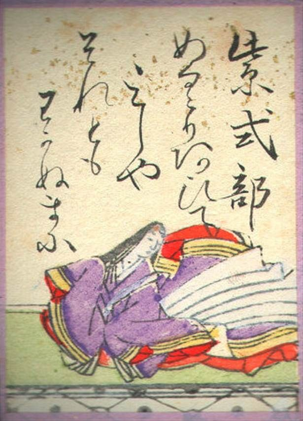 A portrait of Murasaki Shikibu; illustration from an uta-garuta playing card for Hyakunin Isshu, created in the Edo period.